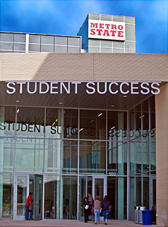 The MSU Denver Student Success Building, opened for business in March, 2012.